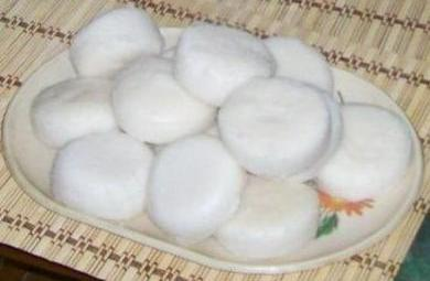 This is an image of Sanna, a Goan variant of idli